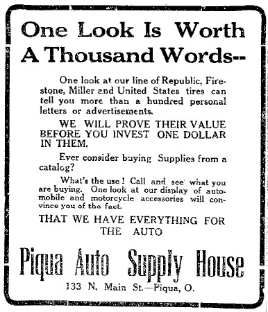 This is an early example of the phrase "One Look is Worth A Thousand Words"